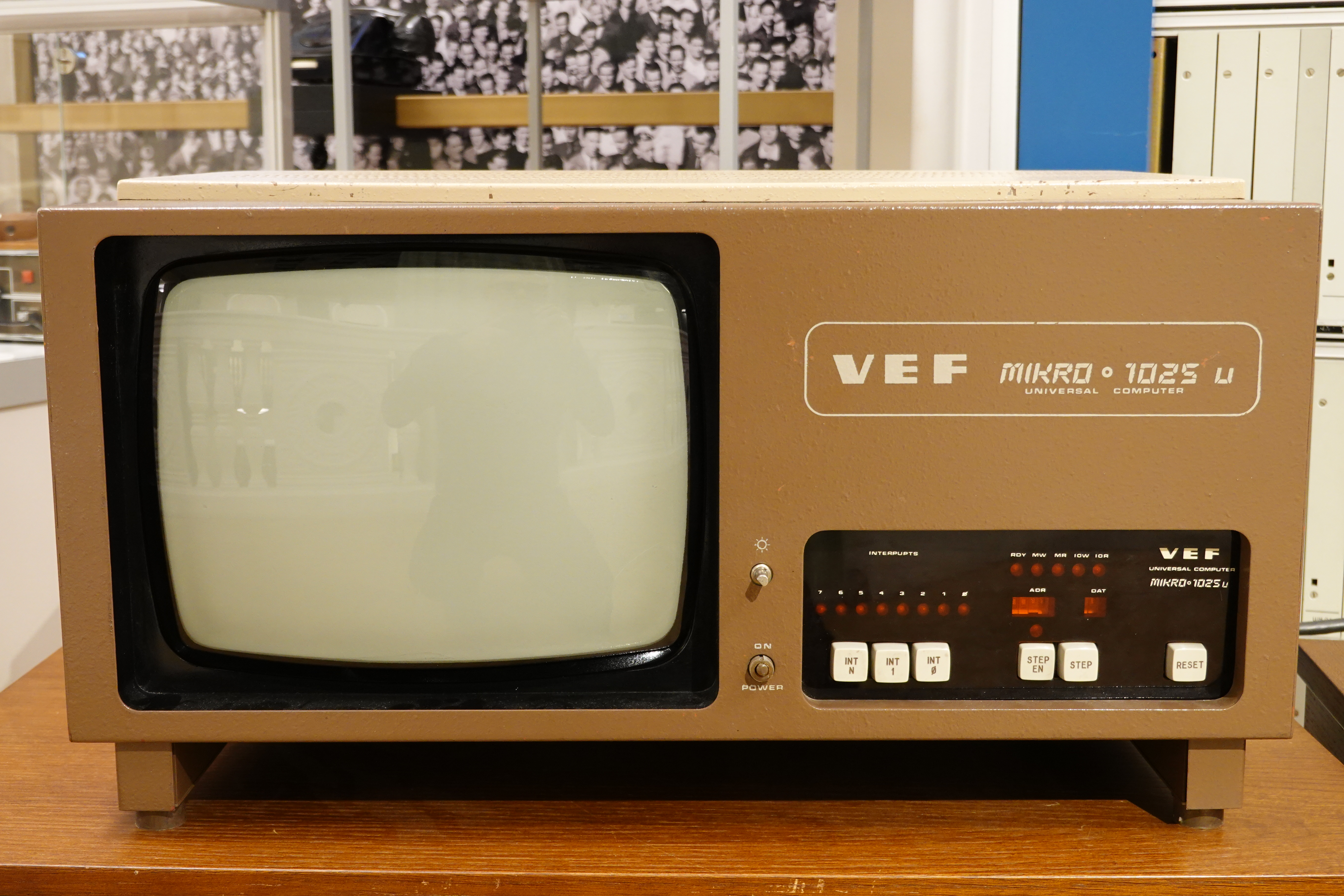 VEF-MIKRO 1025 Latvian Computer in display in Riga